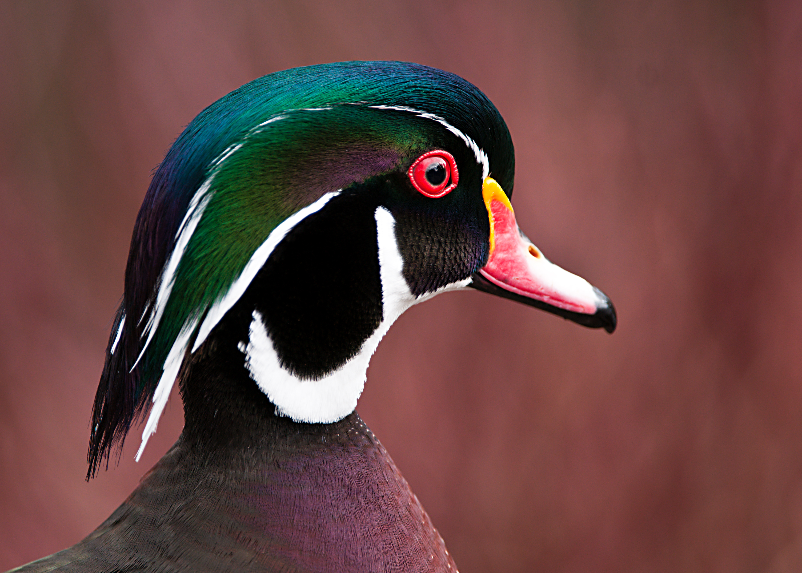 A Wood Duck at Crystal Springs Rhododendron Garden, Portland, Oregon, USA.